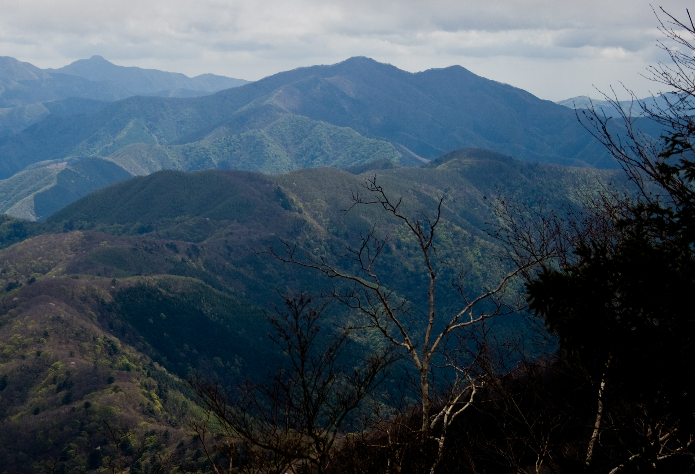 Looking the east from Daibosatsu Pass. Mount Mitō in the center background. Mount Daimatei in the foreground.